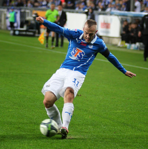 Lovrencsics in Lech